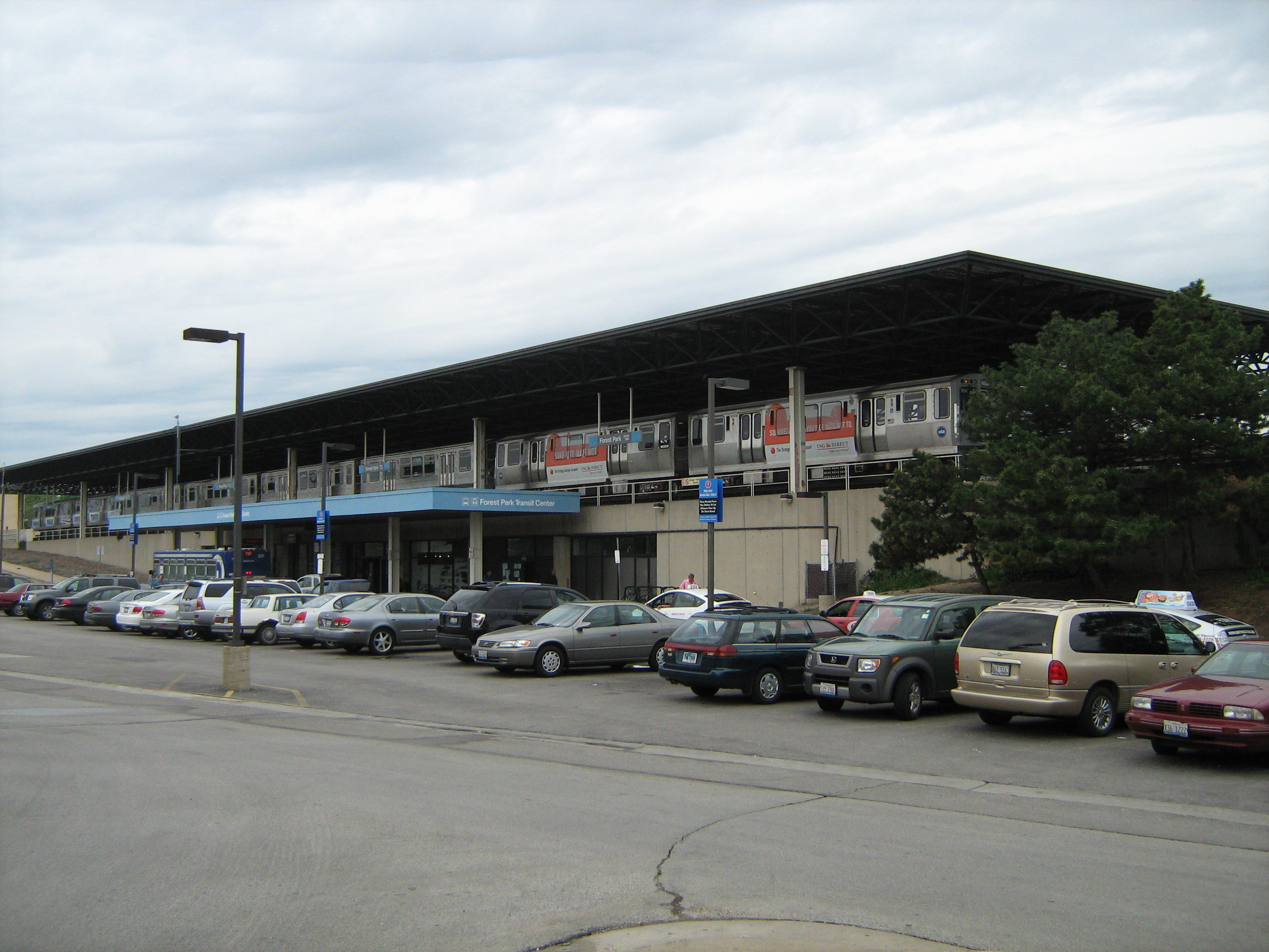 Forest Park CTA Station